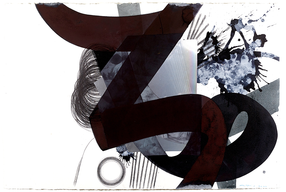 Graphic art work: Untitled, 100 x 150 cm, Mixed Media on paper, Aatifi 2016